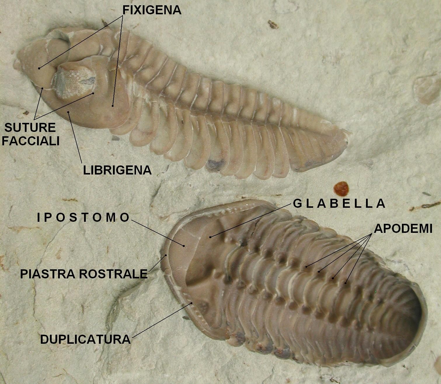 Morphology of lateral & ventral view of a Kainops invius trilobite. Text in Italian